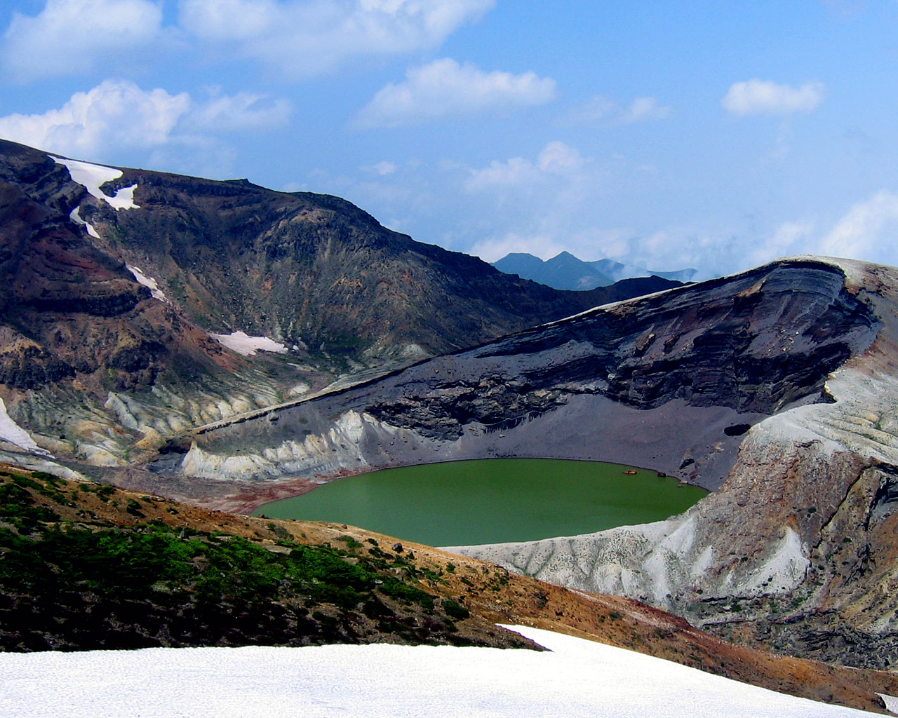 Mount Zao, Miyagi prefecture, Japan.